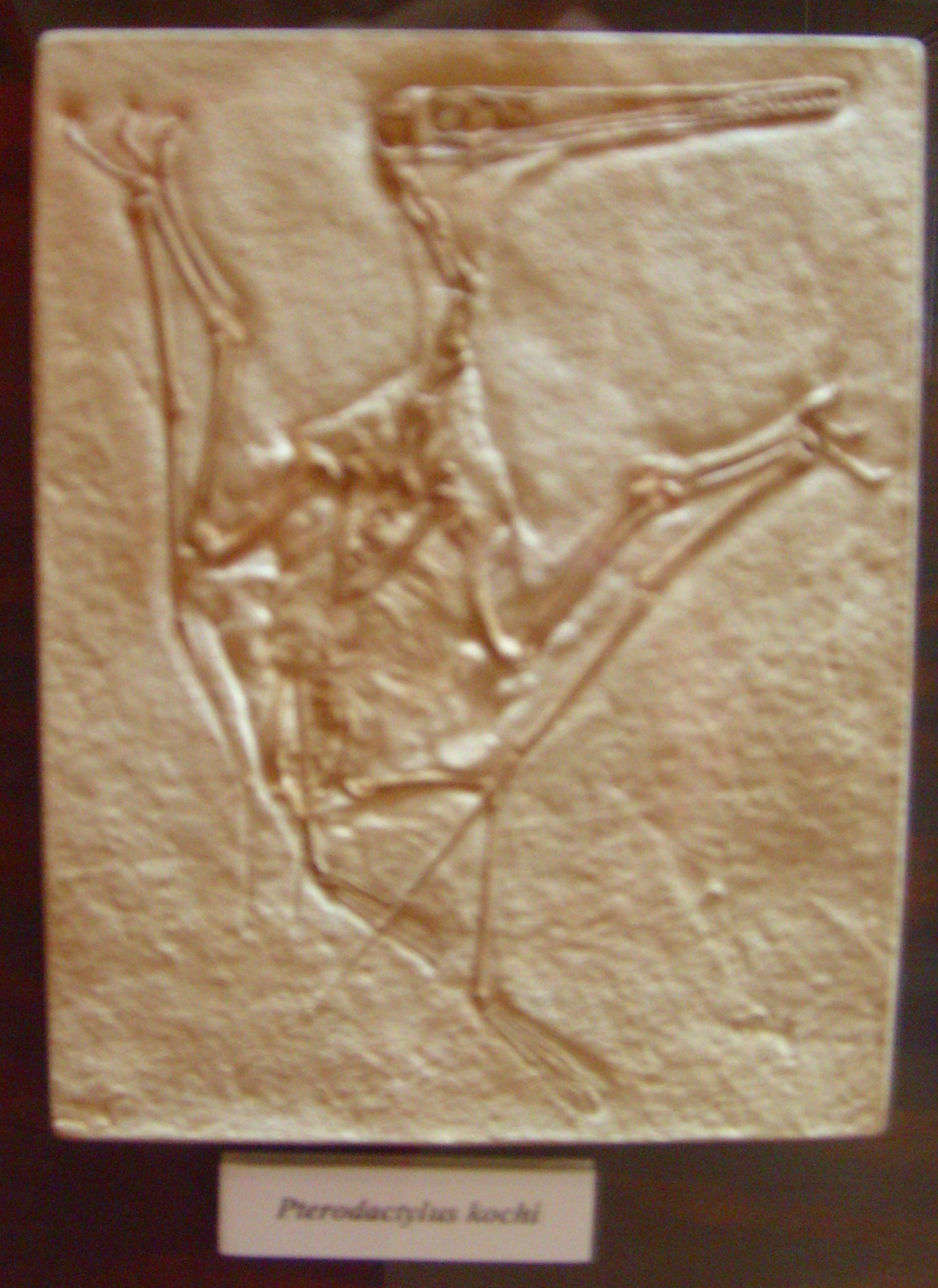 Cast of an Aerodactylus scolopaciceps (formerly Pterodactylus kochi) specimen (BSP 1937 I 18), Sierra College Museum of Natural History, Rocklin, California, USA